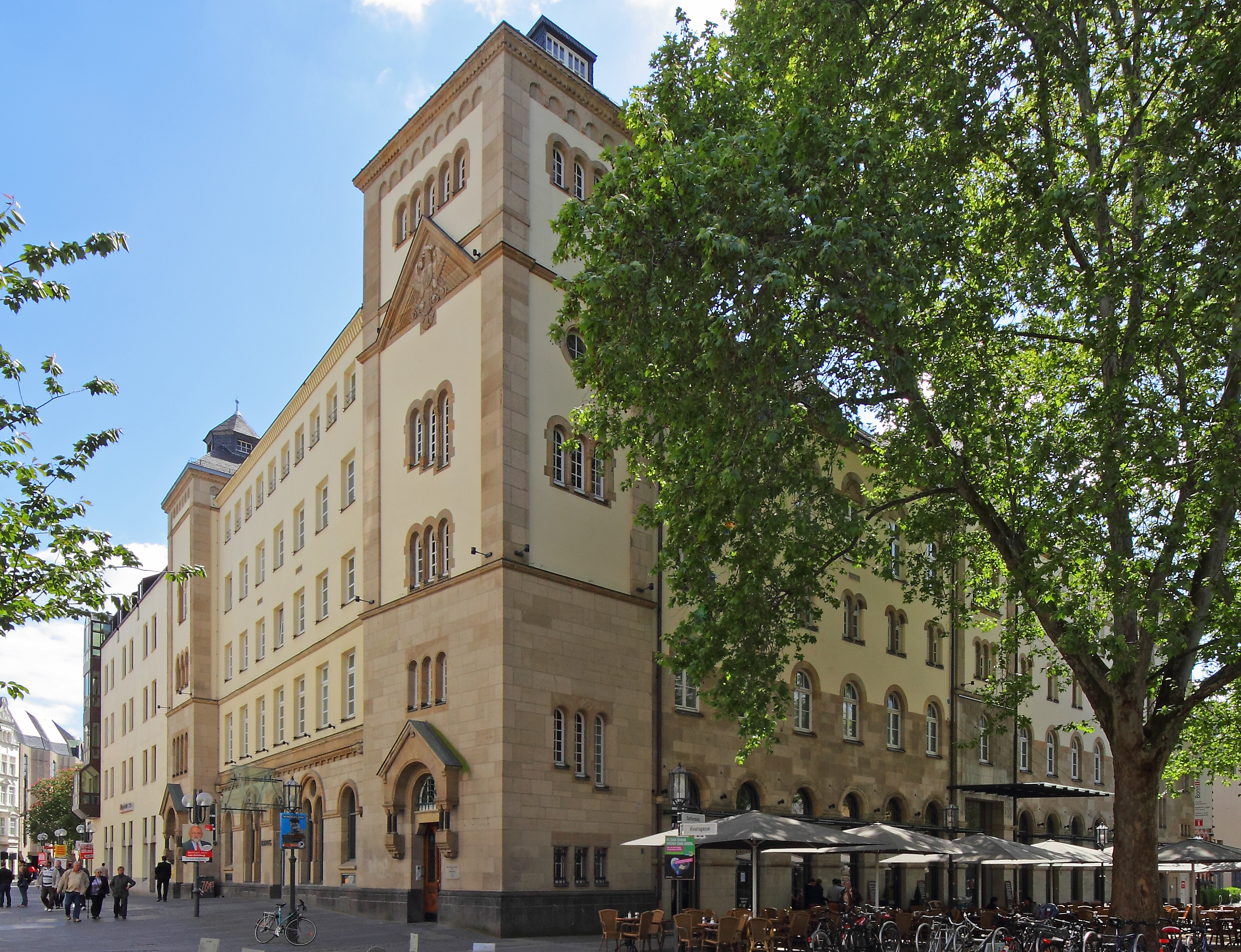 The building of Max Planck Institute for Mathematics in Bonn